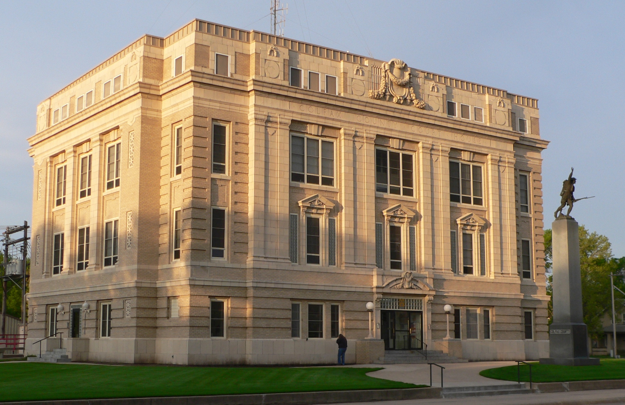 Colfax County Courthouse in Schuyler, Nebraska; seen from the northeast. The Renaissance Revival building was designed by architect George A. Berlinghof and built in 1921. It is listed in the National Register of Historic Places.